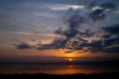 Sunset over Lake Bolsena photo by permission of Maurizio Firmani